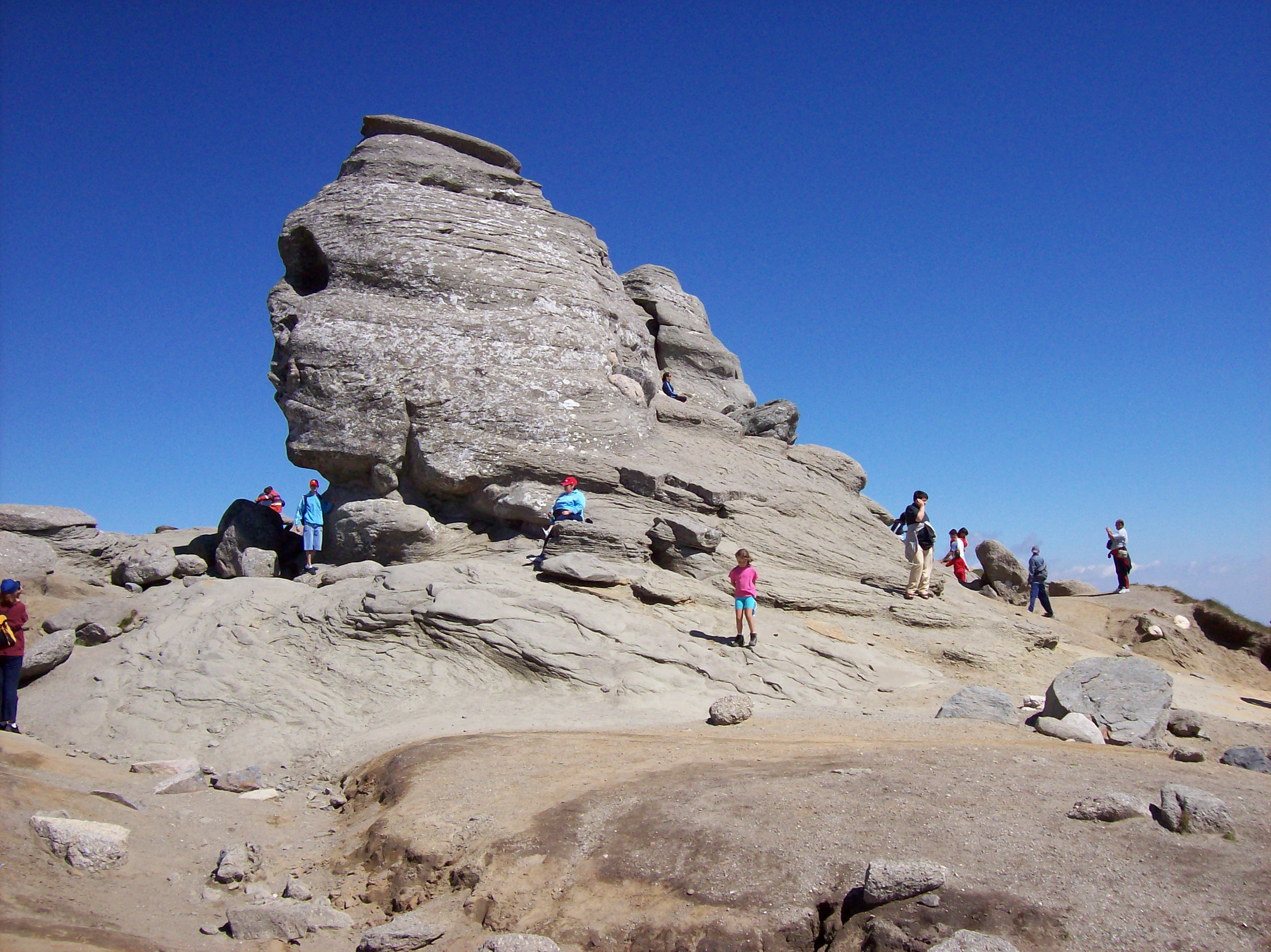 Bucegi Sphinx